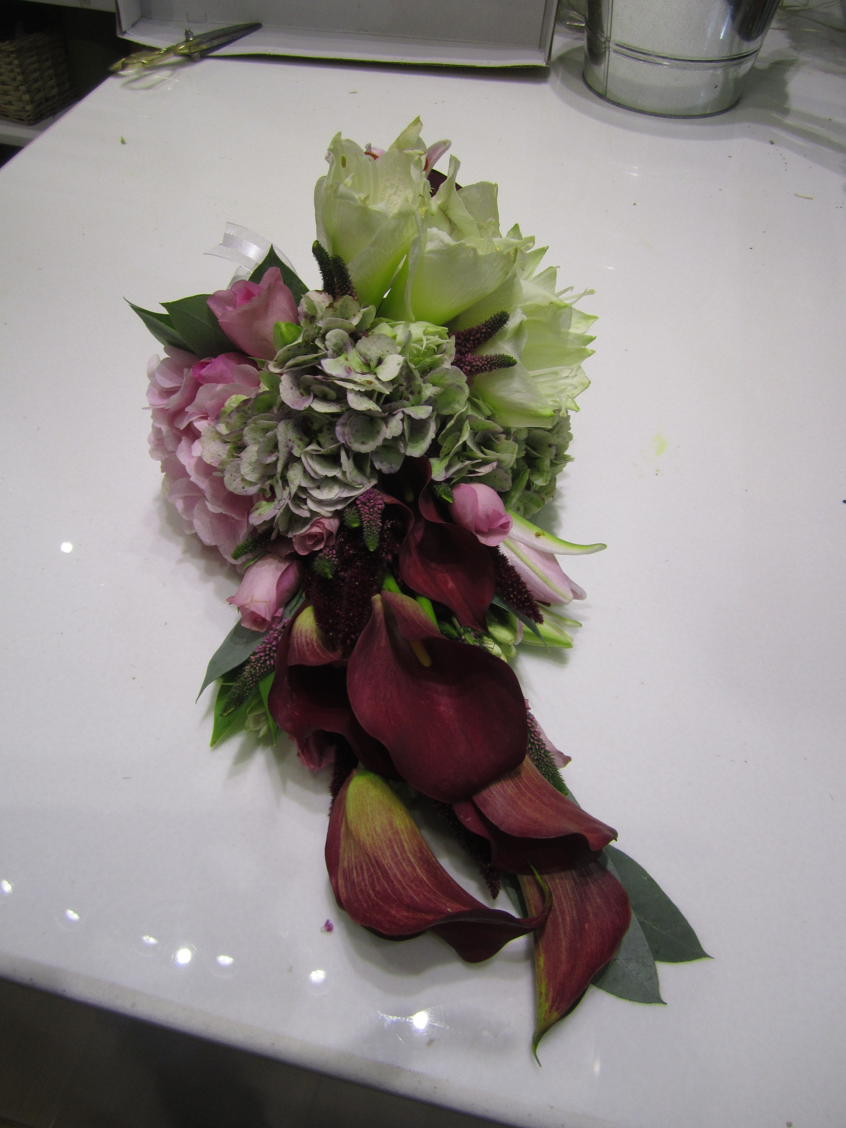 wedding bouquet mix flowers